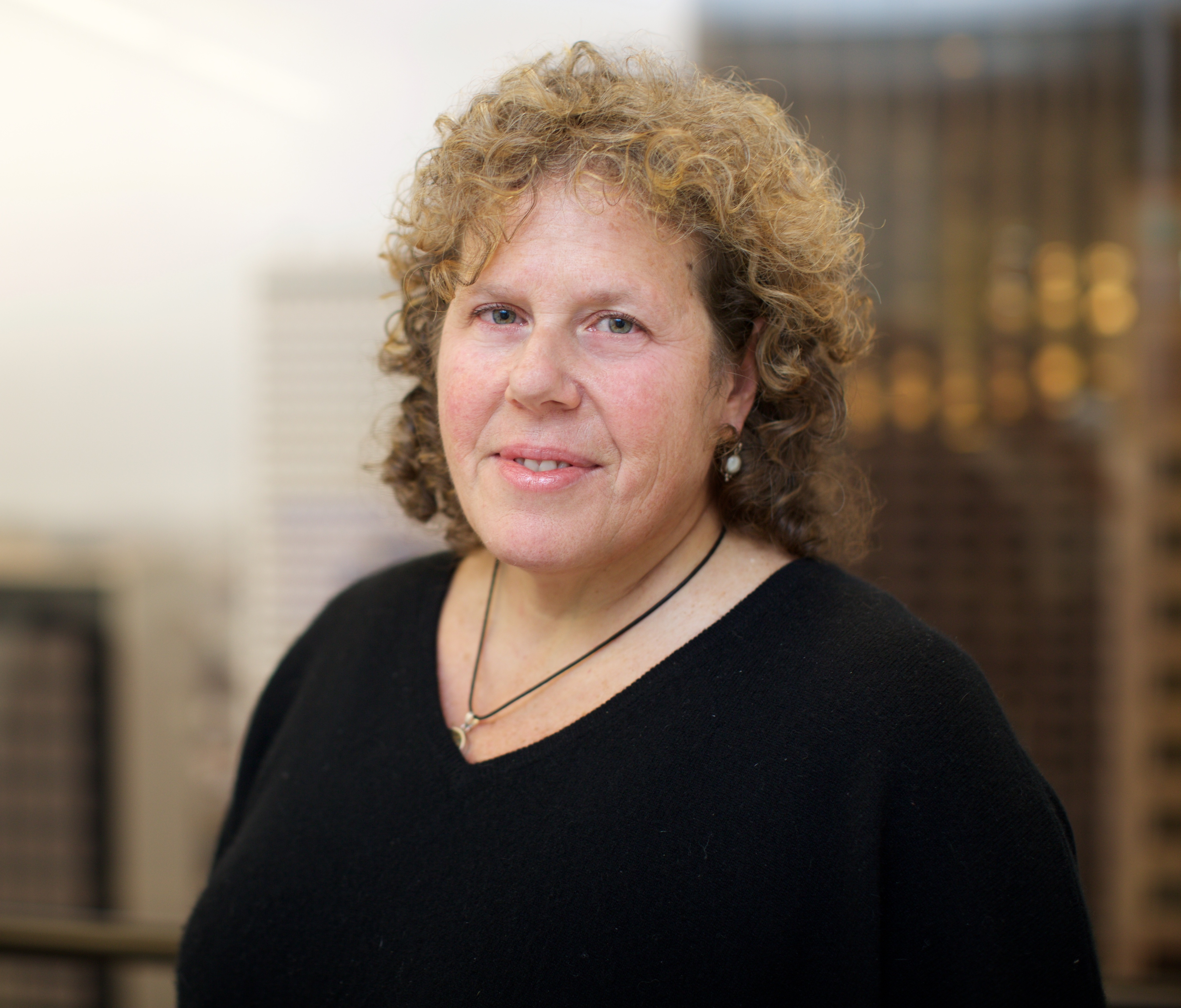 Crowd Expedition interviewed Lisa Gansky (entrepreneur, investor, speaker and author of the bestselling book, The Mesh) about the challenges and the next steps in the collaborative economy.